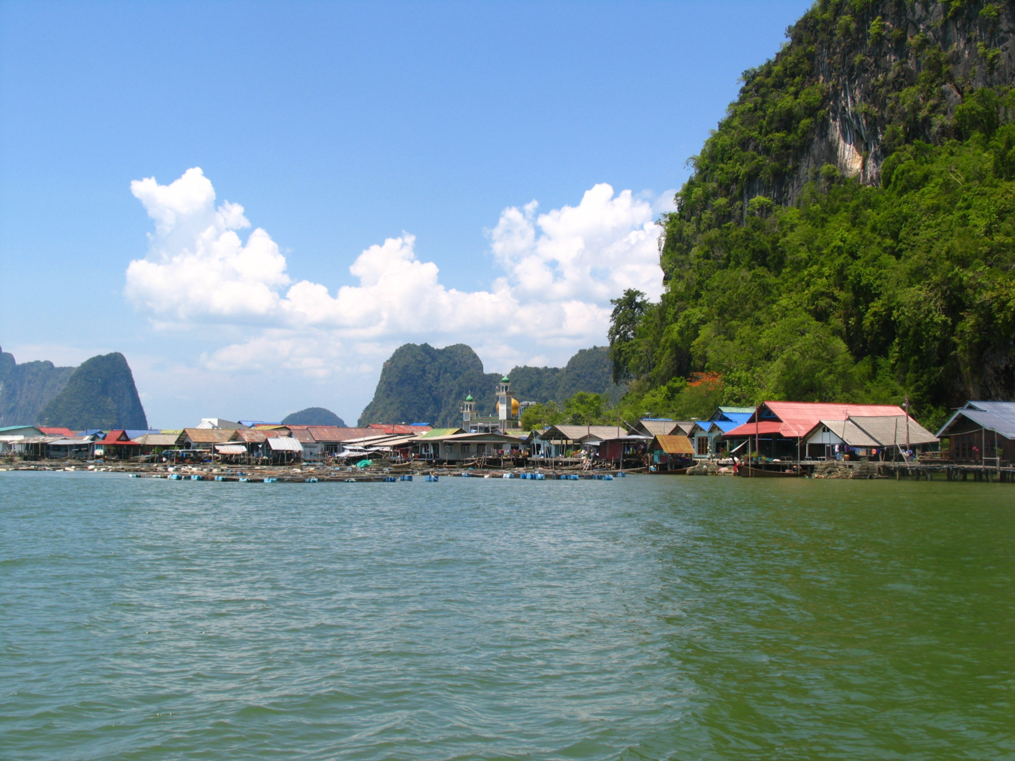 Typical Muslim floating village in Phang Nga Bay, Thailand.